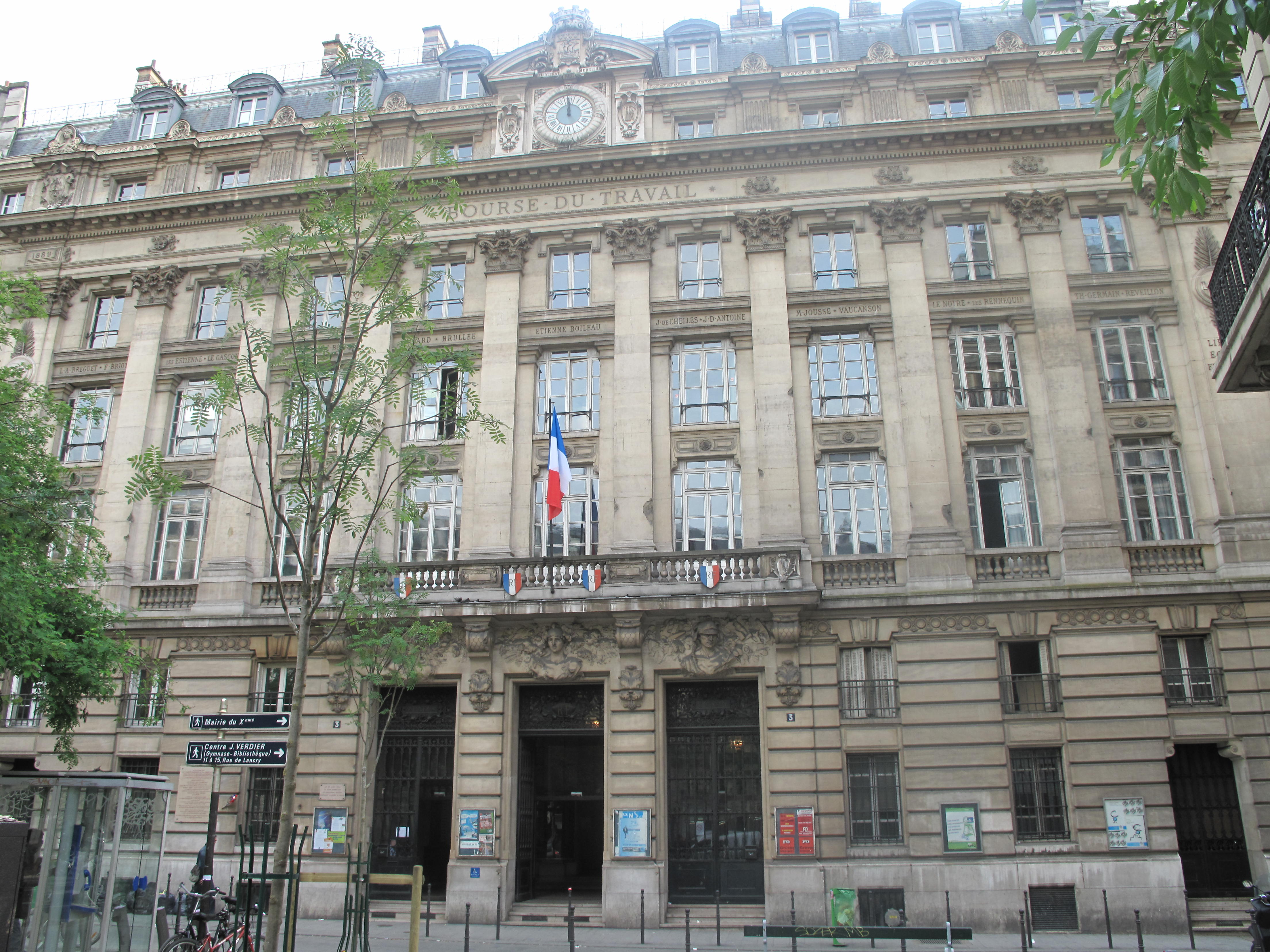 Labour council, rue du Château d'Eau in Paris 10th arr.